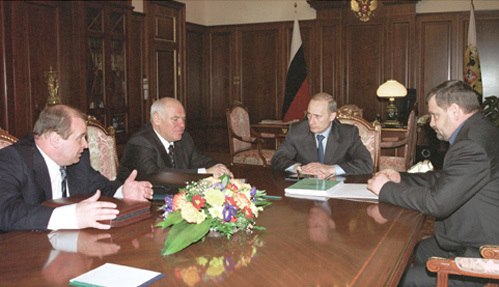 THE KREMLIN, MOSCOW. President Putin meets with Presidential Envoy to the Southern Federal District Viktor Kazantsev, head of the Chechen Administration Akhmat Kadyrov and Chechen Prime Minister Stanislav Ilyasov.